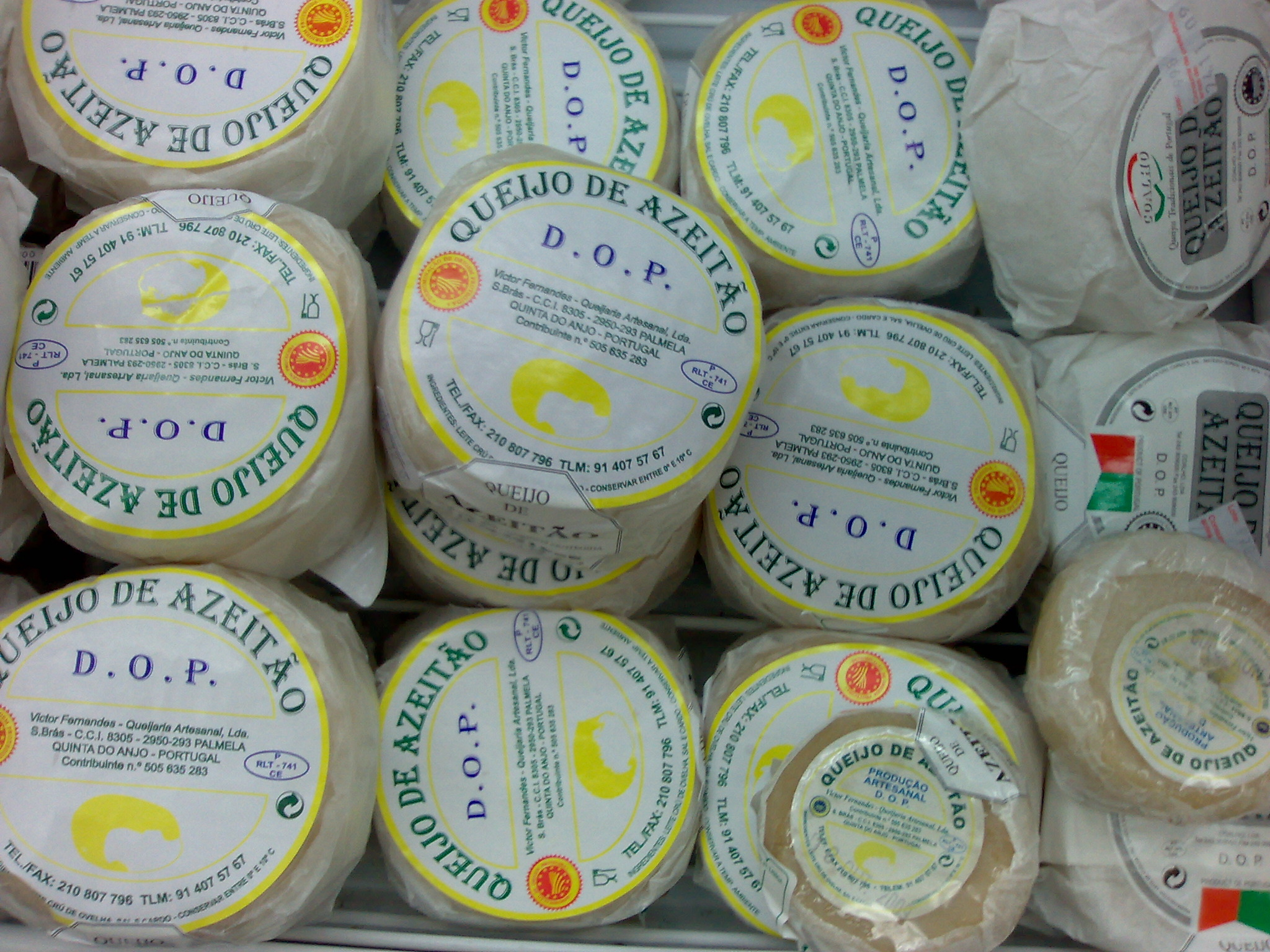 Cheese from Azeitão, Portugal.